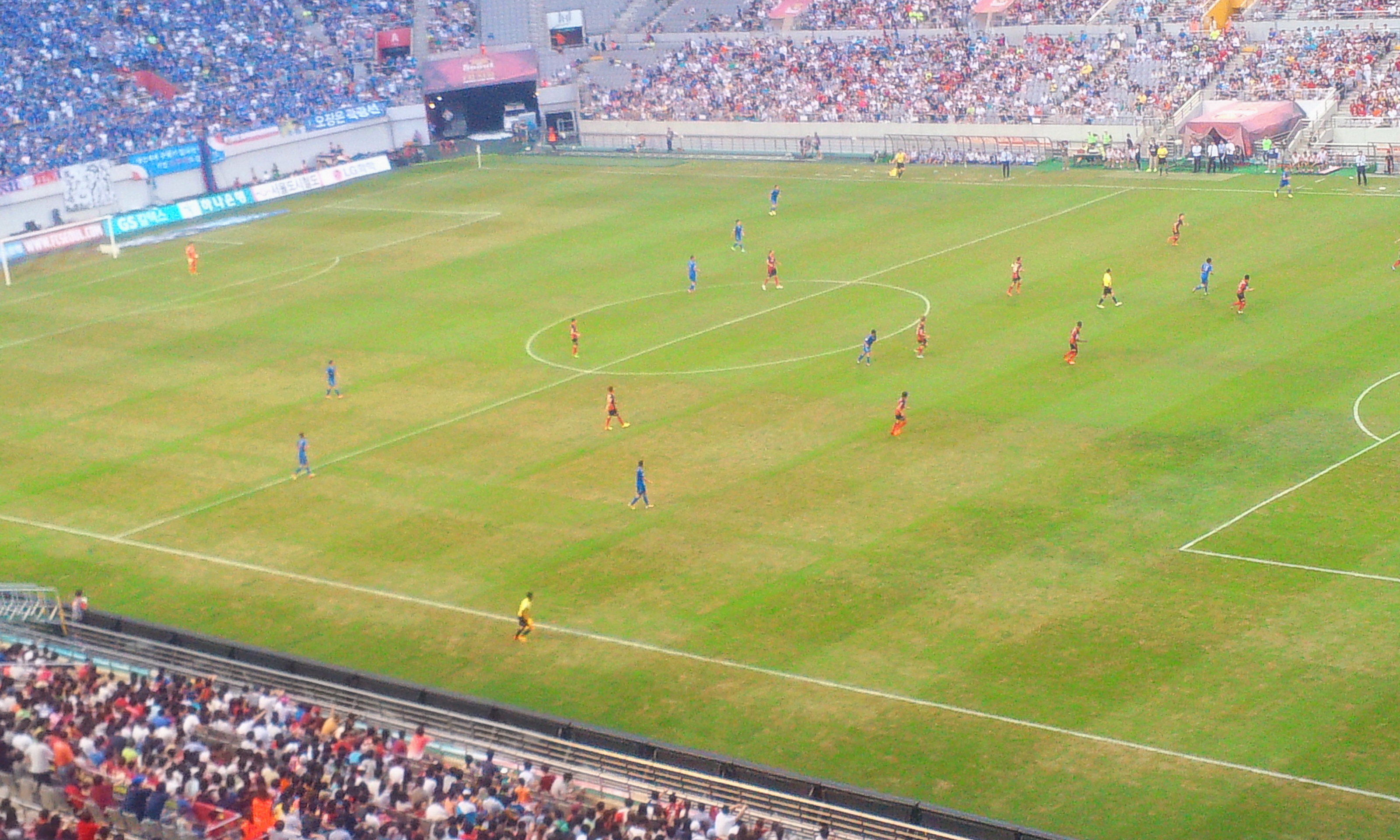 Super Match. 03.August 2013. Seoul World Cup Stadium